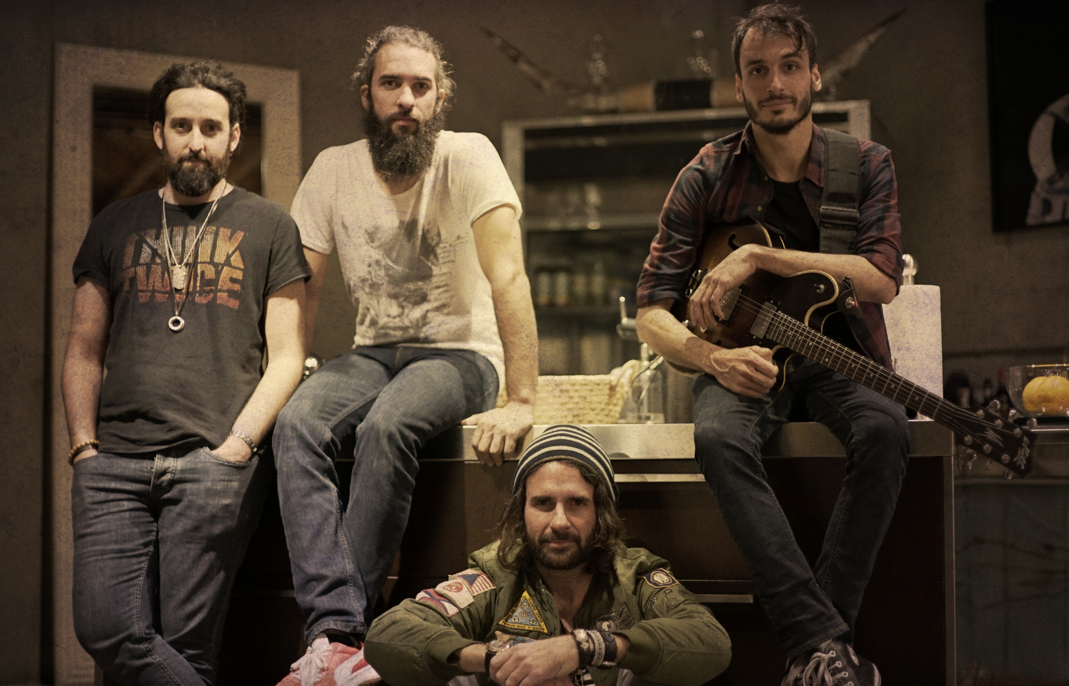 2017 Photograph of Prime Ministers, an Ecuadorian rock band